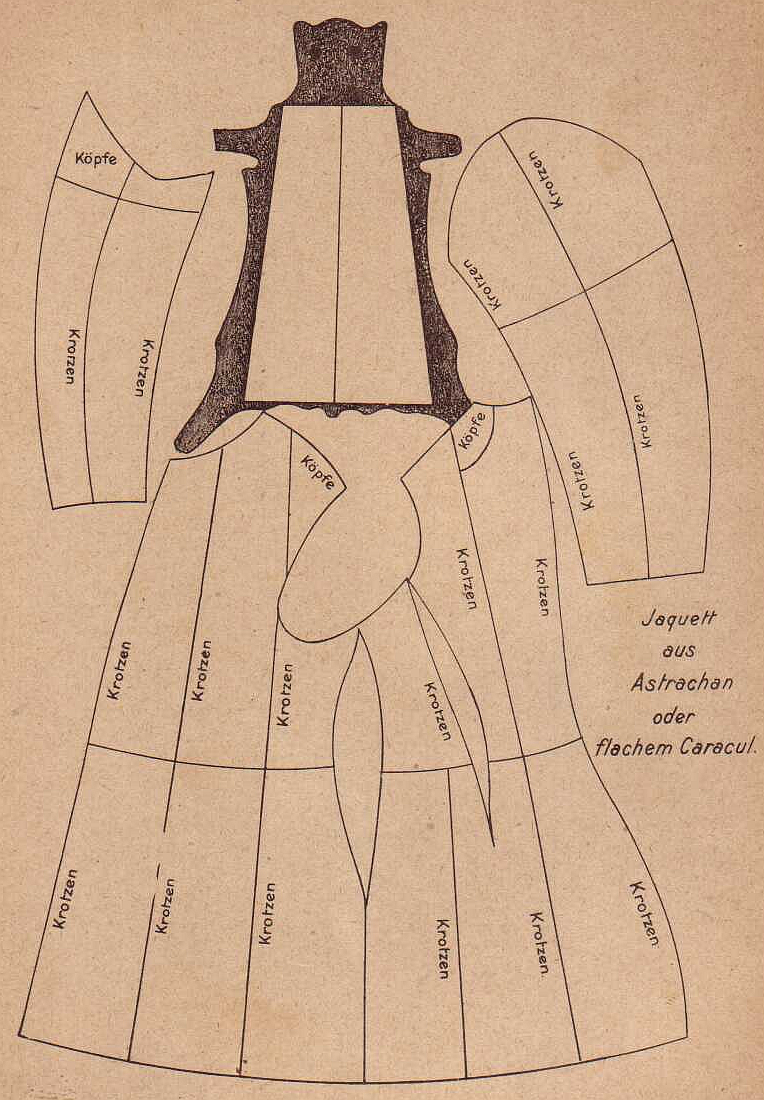 Graphics for Furriers